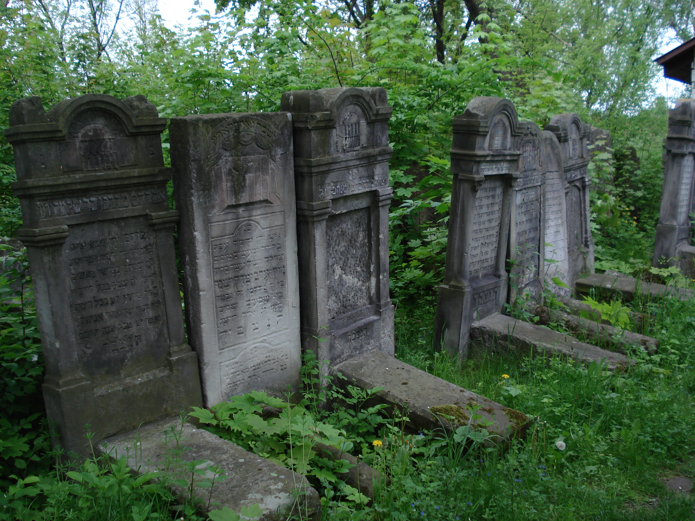 Jewish cementery in Szydłowiec